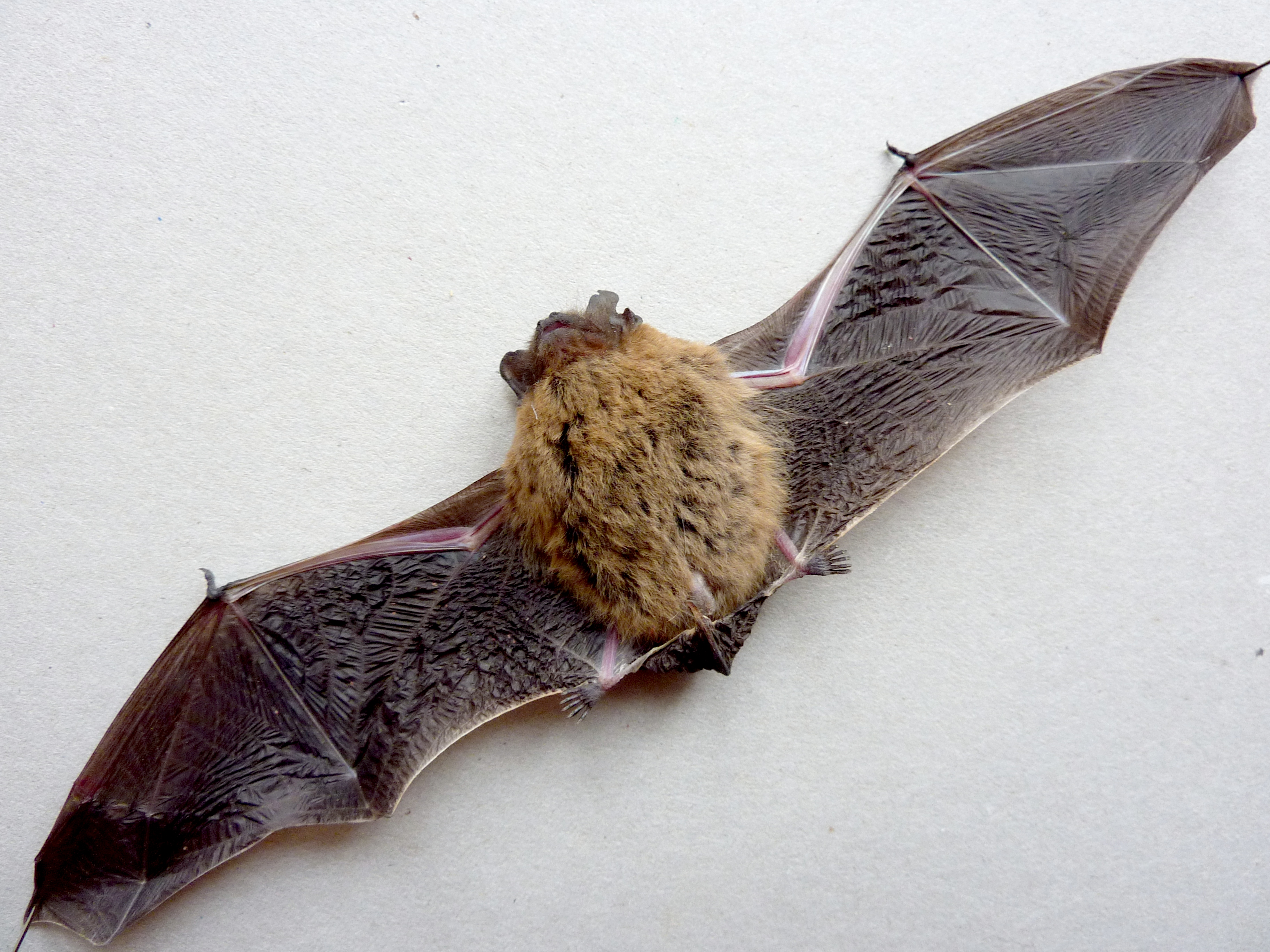 Belly side. Attic bat, Charente-Maritime (France)